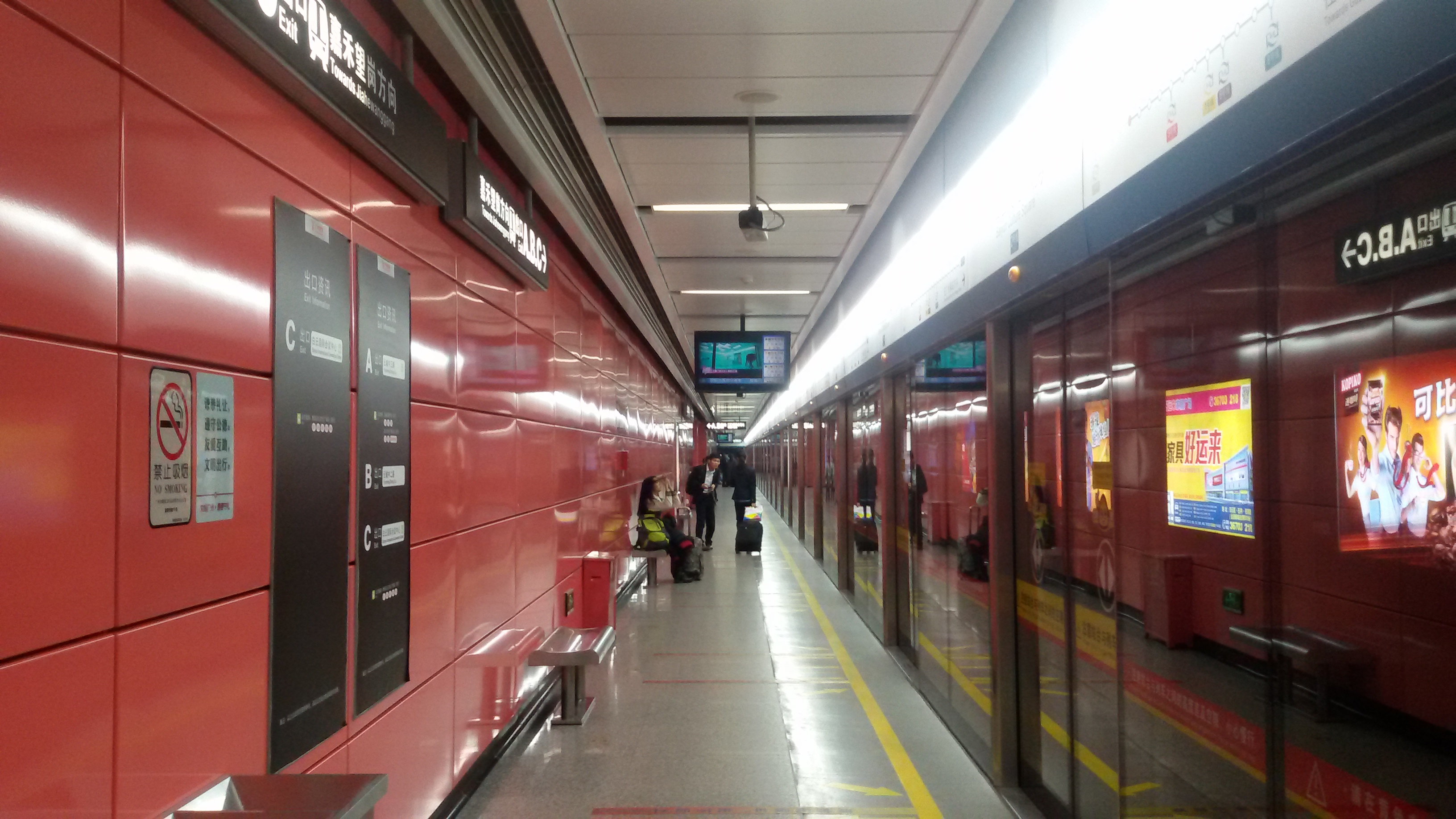 Station Platform (Towards Guangzhou South Raliway Station) for Baiyun Culture Square Station in Guangzhou Metro